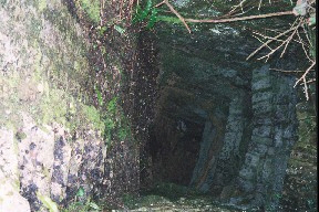 Looking down an old Quarr. Looking straight down, the steps are lower left!